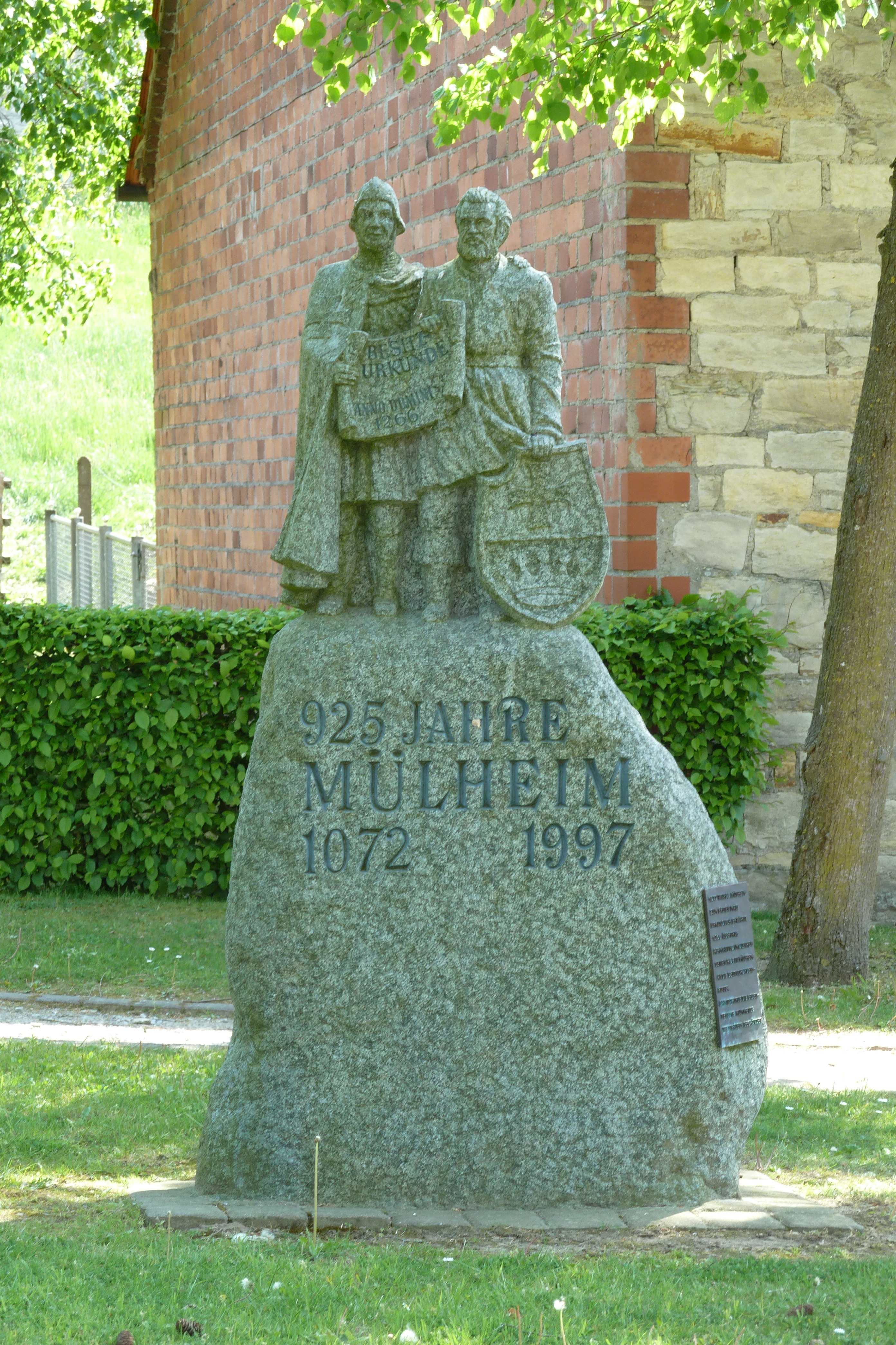 Sculpture in Warstein-Mülheim, Germany.